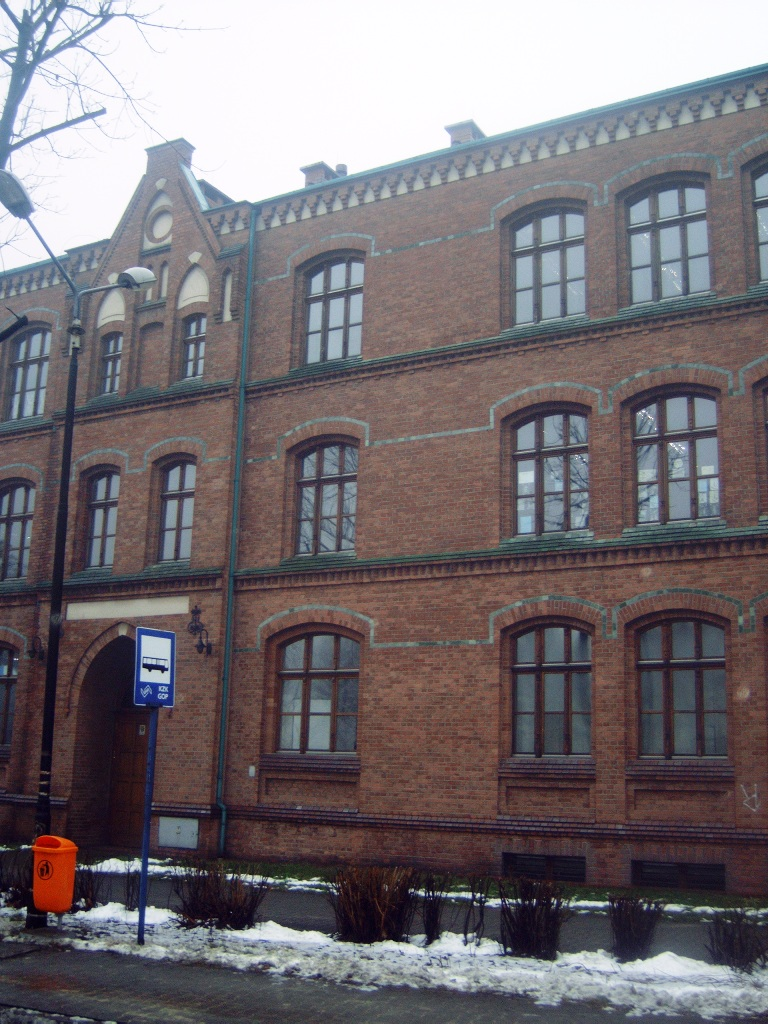 Public school in Dąbrówka Mała (district of Katowice City)